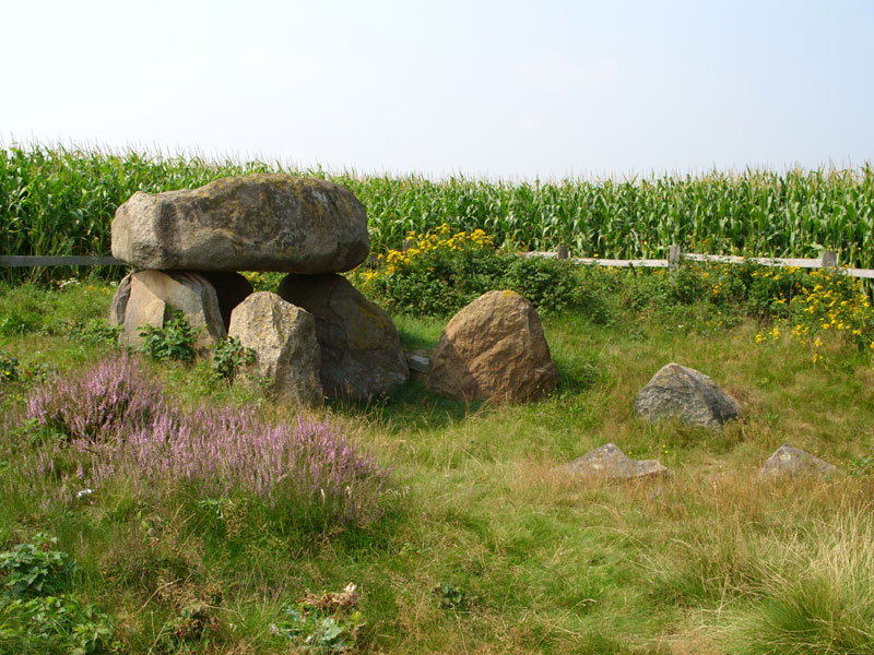 Großsteingrab Badenstedt